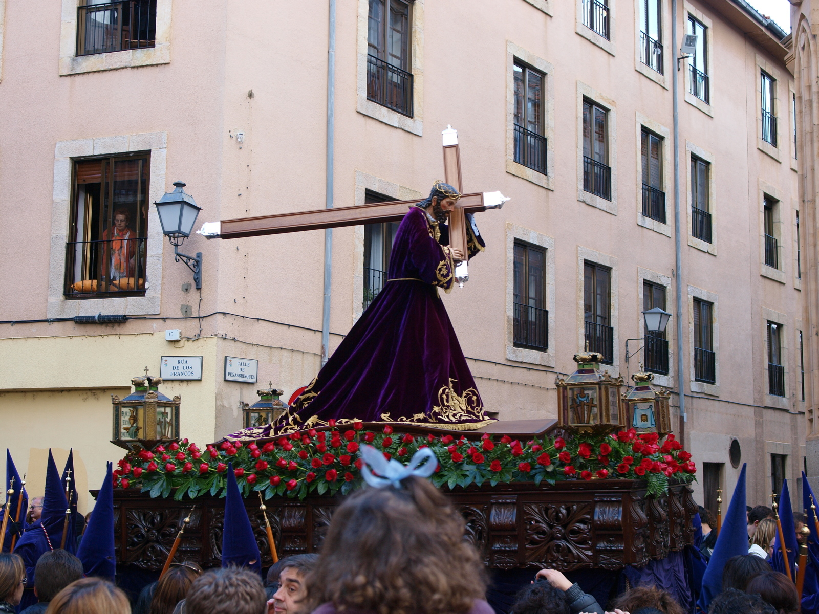 Procession of the religious brotherhood Cofradía de la Santa Vera Cruz, Zamora (Spain), Holy Week 2010